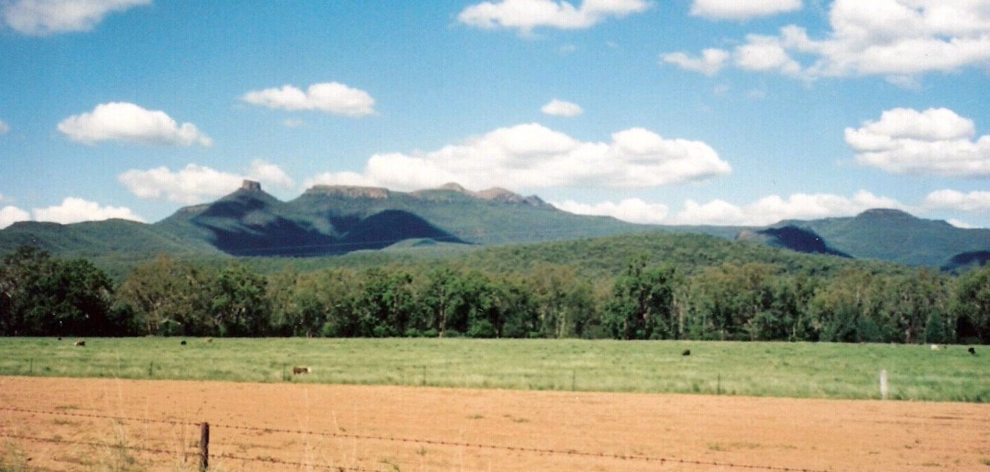 Just north of Narrabri, New South Wales. Photo of Nandewar Range from Newell Highway. Mount Kaputar, the third peak from the left, is the range's highest peak.